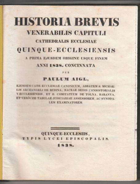 Inside title page of Paul Aigl's 1838 book Historia brevis venerabilis capituli cathedralis ecclesiae Quinque-Ecclesiensis a prima ejusdem origine usque finem anni 1838, concinnata, published in Pécs, Hungary